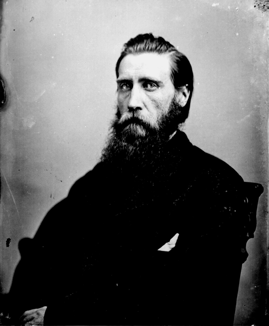 John Bell Hood, photograph taken in the mid 19th century.